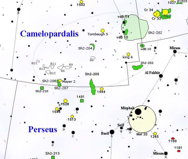 Map if Camelopardalis molecular cloud